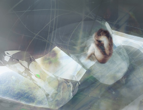 my project